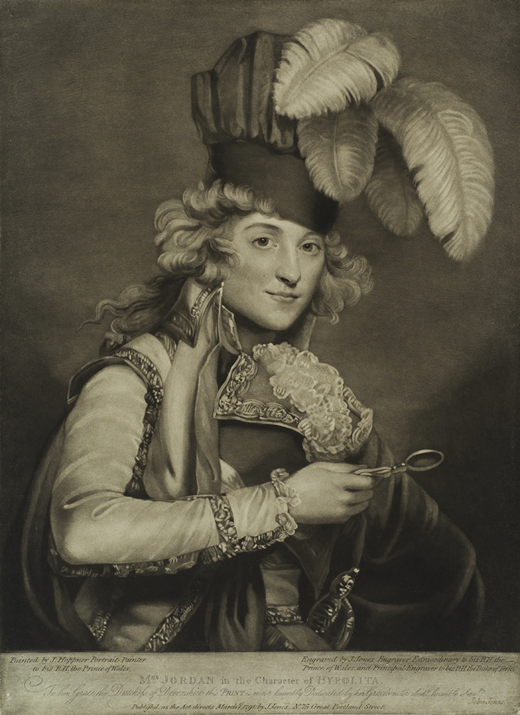 published [London]: J. Jones, March 1, 1791. Dorothea (Dorothy) Jordan nee Bland, mistress of King William IV of Great Britain.